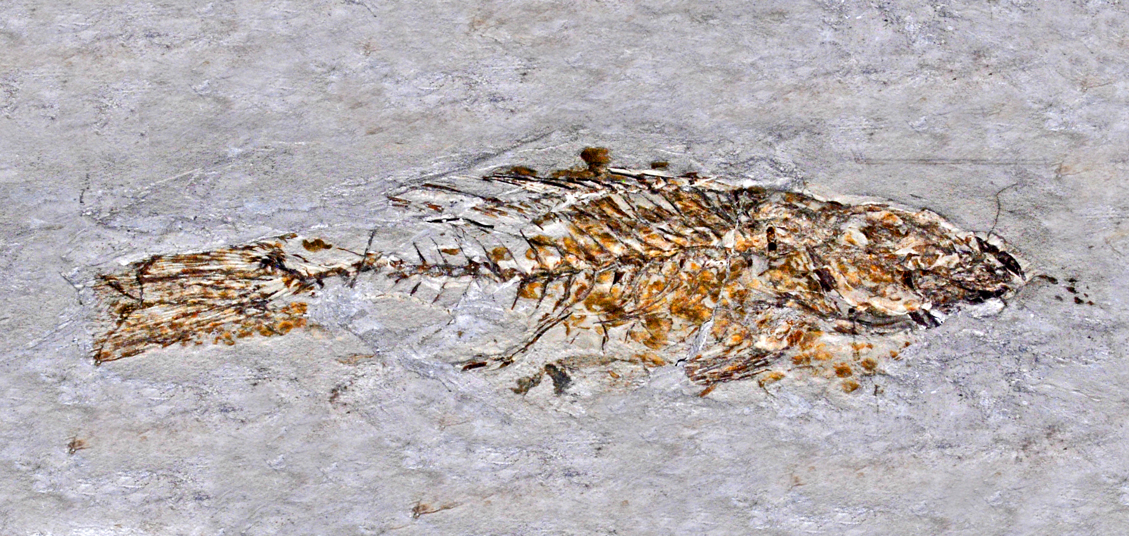 Cyclopoma spinosum from Eocene of Monte Bolca, on display at Museo Geologico G. Cappellini, Bologna